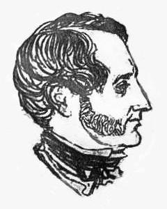 Portaits of five gentlemen James Moir Ferres